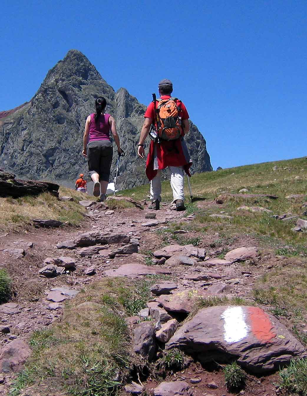 Ramblering in Pirineos (Spain, Europe)